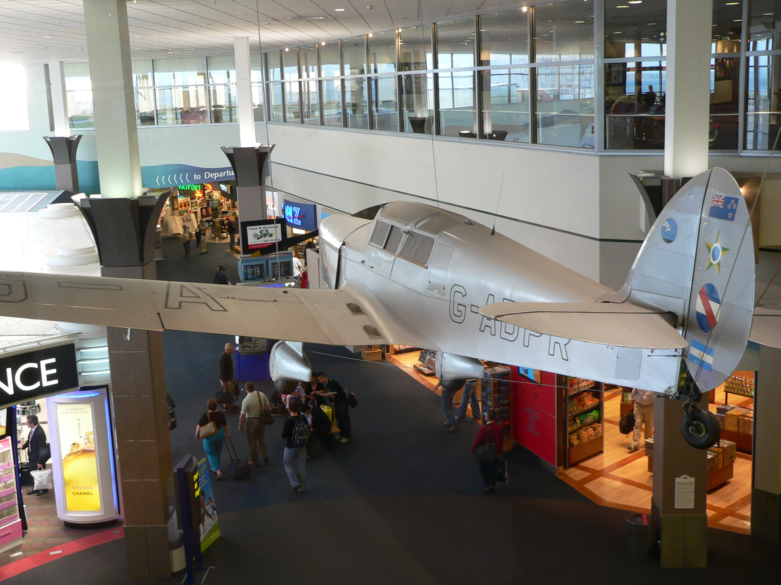 Jean Batten's Percival Gull, G-ADPR, preserved at Auckland International Airport. Photograph taken by Lee Kindness, 30/09/2005.